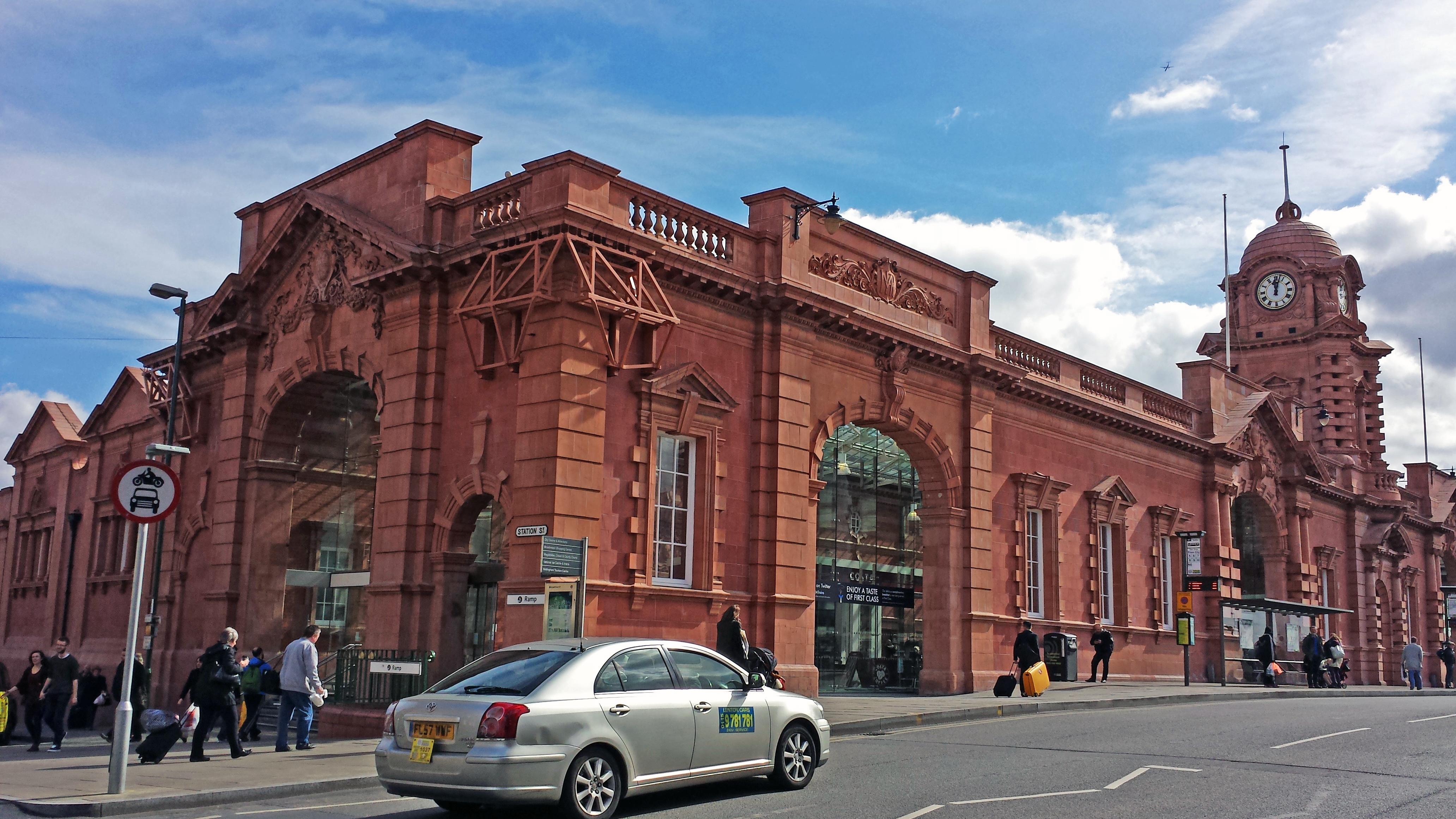 Nottingham railway station in 2015